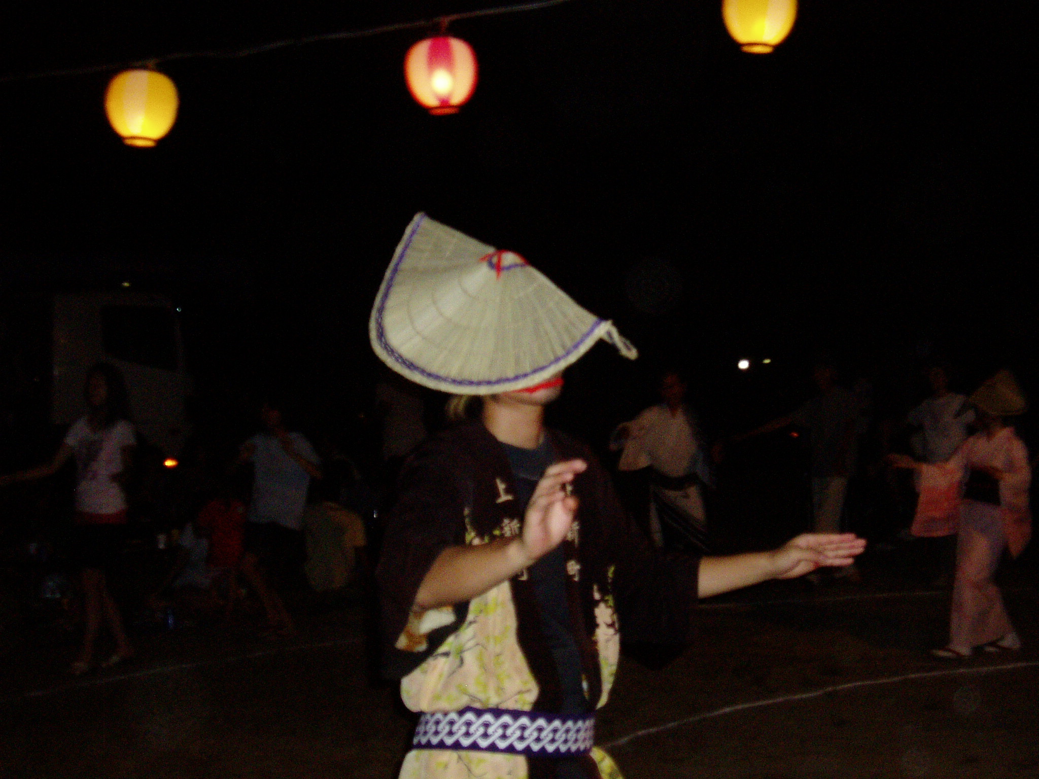 Owara Dance.